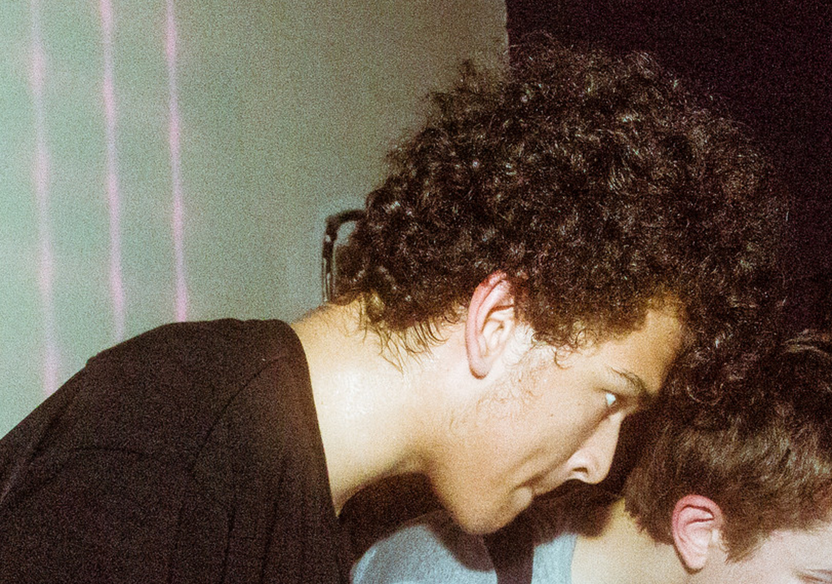 Yung Gud performing with Yung Lean and his sad boys. Photo taken in 2014